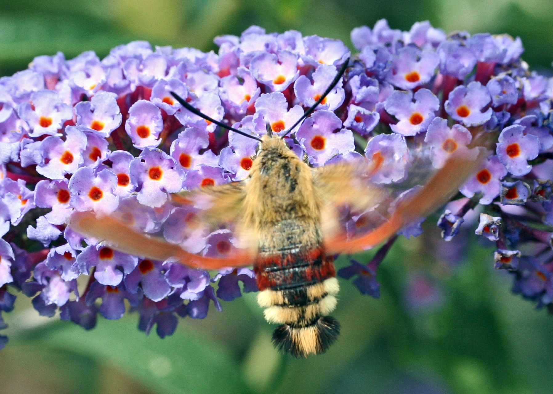 Hemaris fuciformis 29 July 2006 IJmuiden, the Netherlands